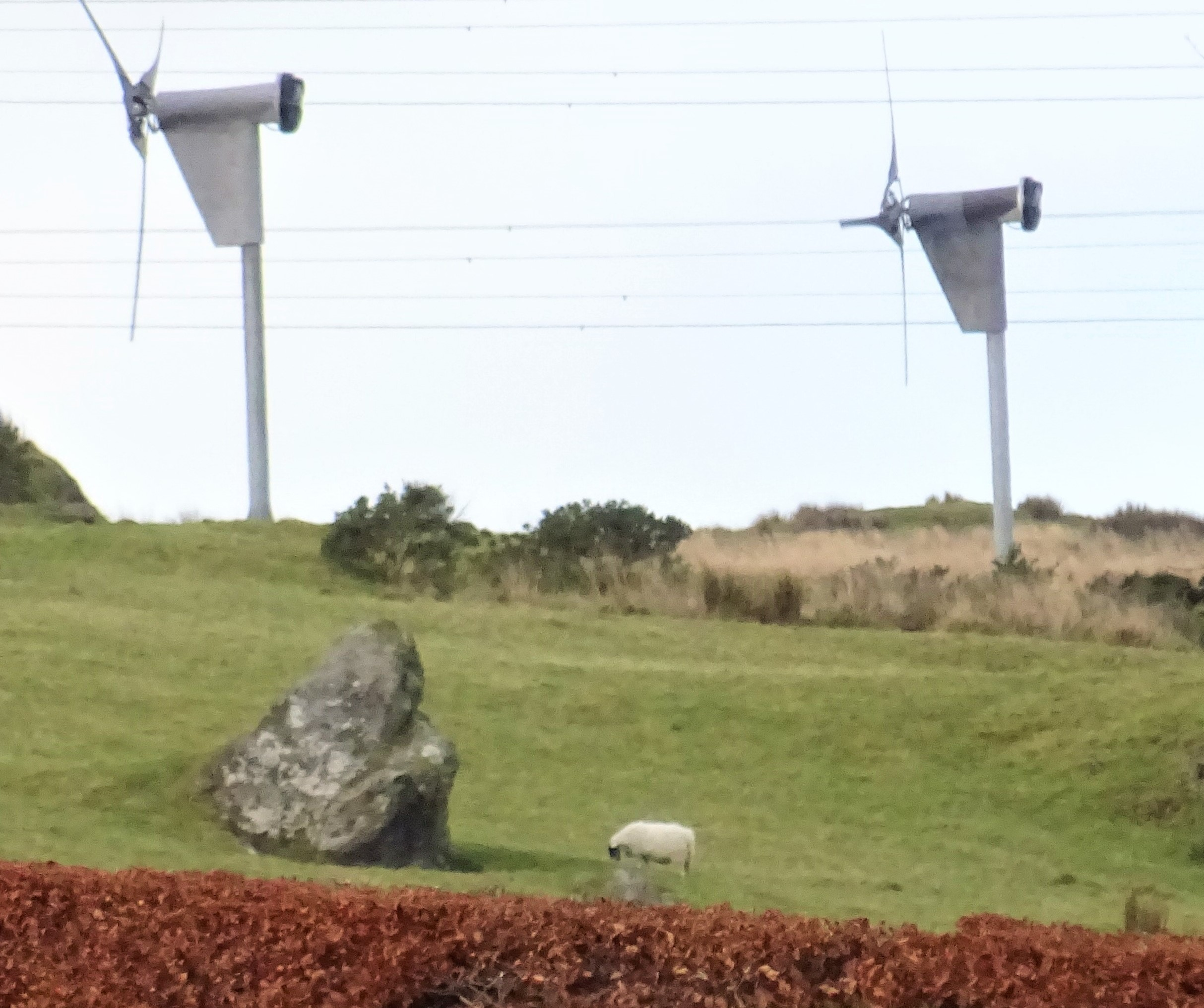 The name 'Cat' is applied to many stones, such as the 'Cat Stone' on the Isle of Arran near the village of Corrie and the Cat Stane near Edinburgh Airport. 'Cat' is thought to come from 'Cath', a Celtic word, meaning a 'battle.' The Norwegian term, 'Bauta Stein', means the same thing. A suggestion is that such stones were rallying places for clan members, etc. prior to battles, etc.